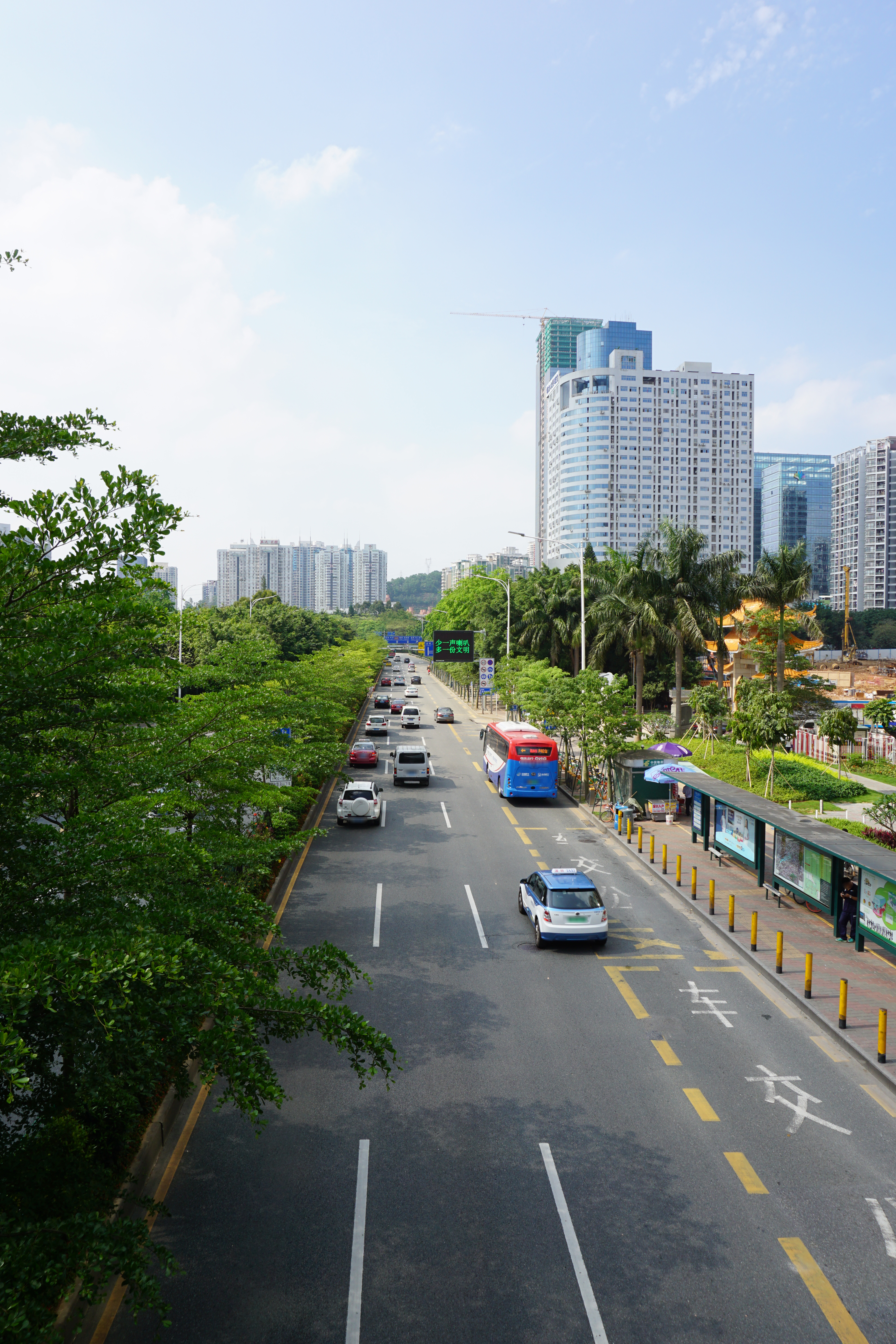 Wenjin North Road in Luohu District, Shenzhen.